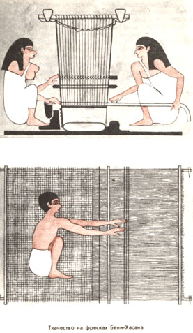 Image of women weaving, as depicted on a tomb at Beni Hassan. Image reproduced from V. V. Neelov, Tkatchestvo.